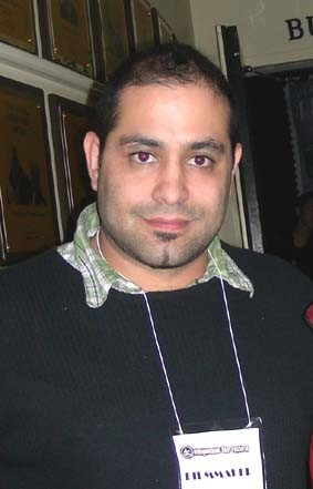 Esaú Meléndez is the director of Immigrant Nation! The Battle for the Dream. Here he is at the premiere of this feature documentary at the DC Independent Film Festival in Washington, DC, 2010-03-06